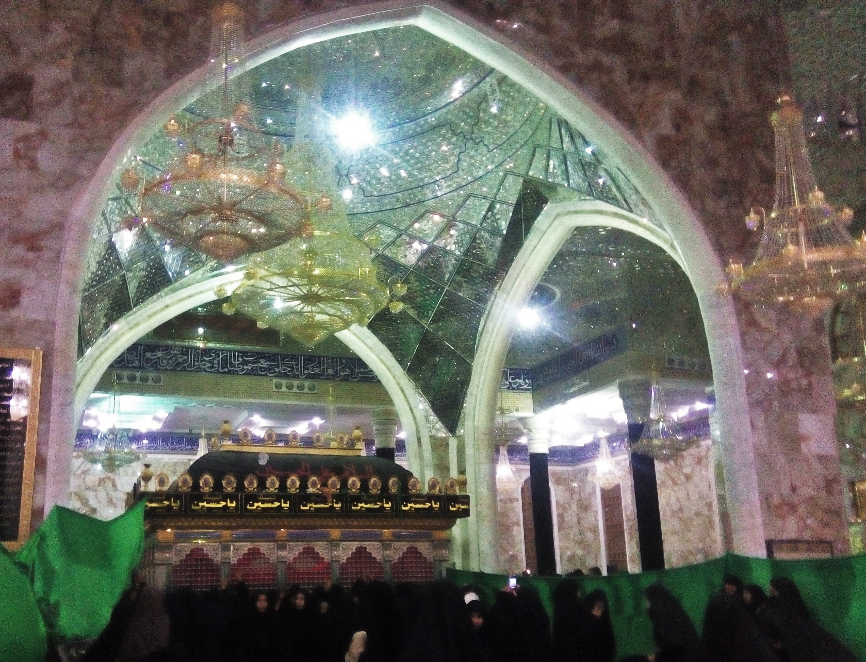 Holy Shrine of Hussein ibn Ali's companion.